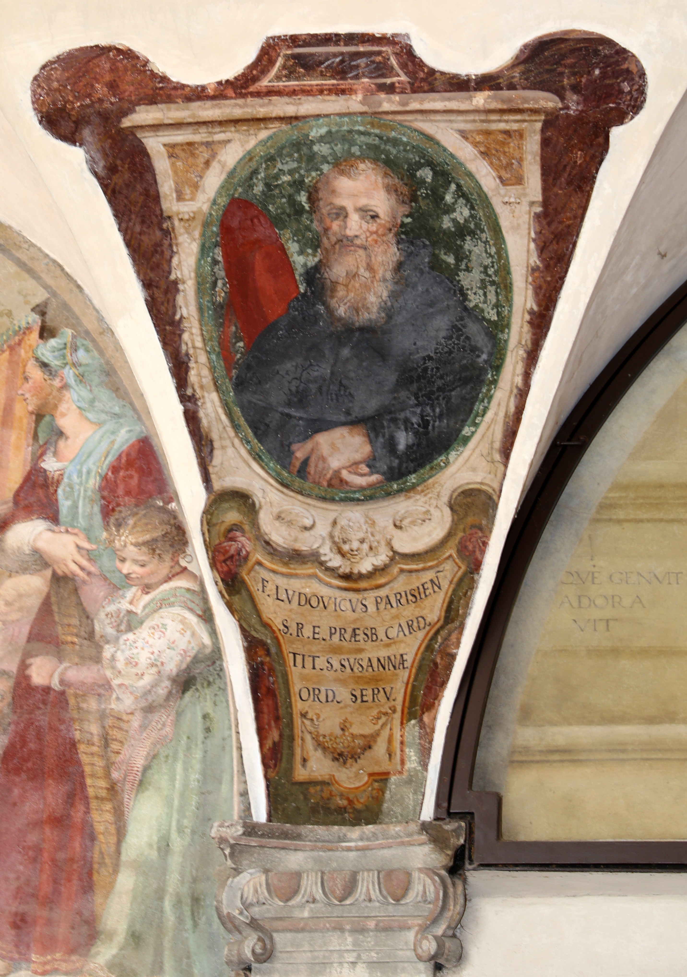 Servite Order Personalities by Donato Arsenio Mascagni